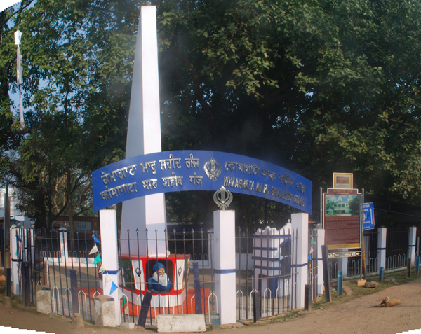 Komagata Maru Memorial, Budge Budge